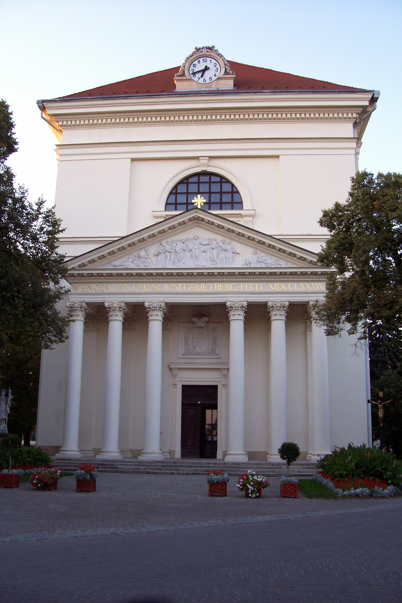 English